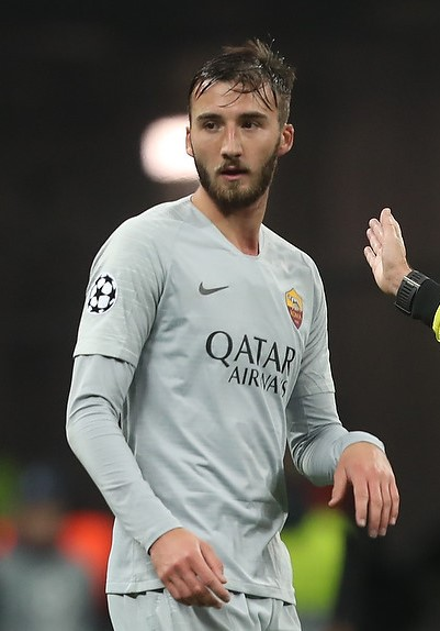 Bryan Cristante